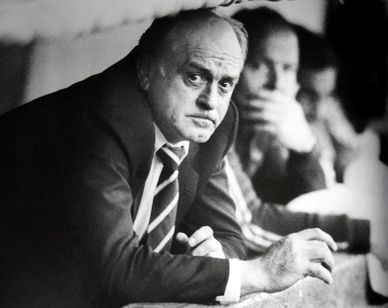 Alfredo Di Stéfano as River Plate manager, watching the match on the bench.